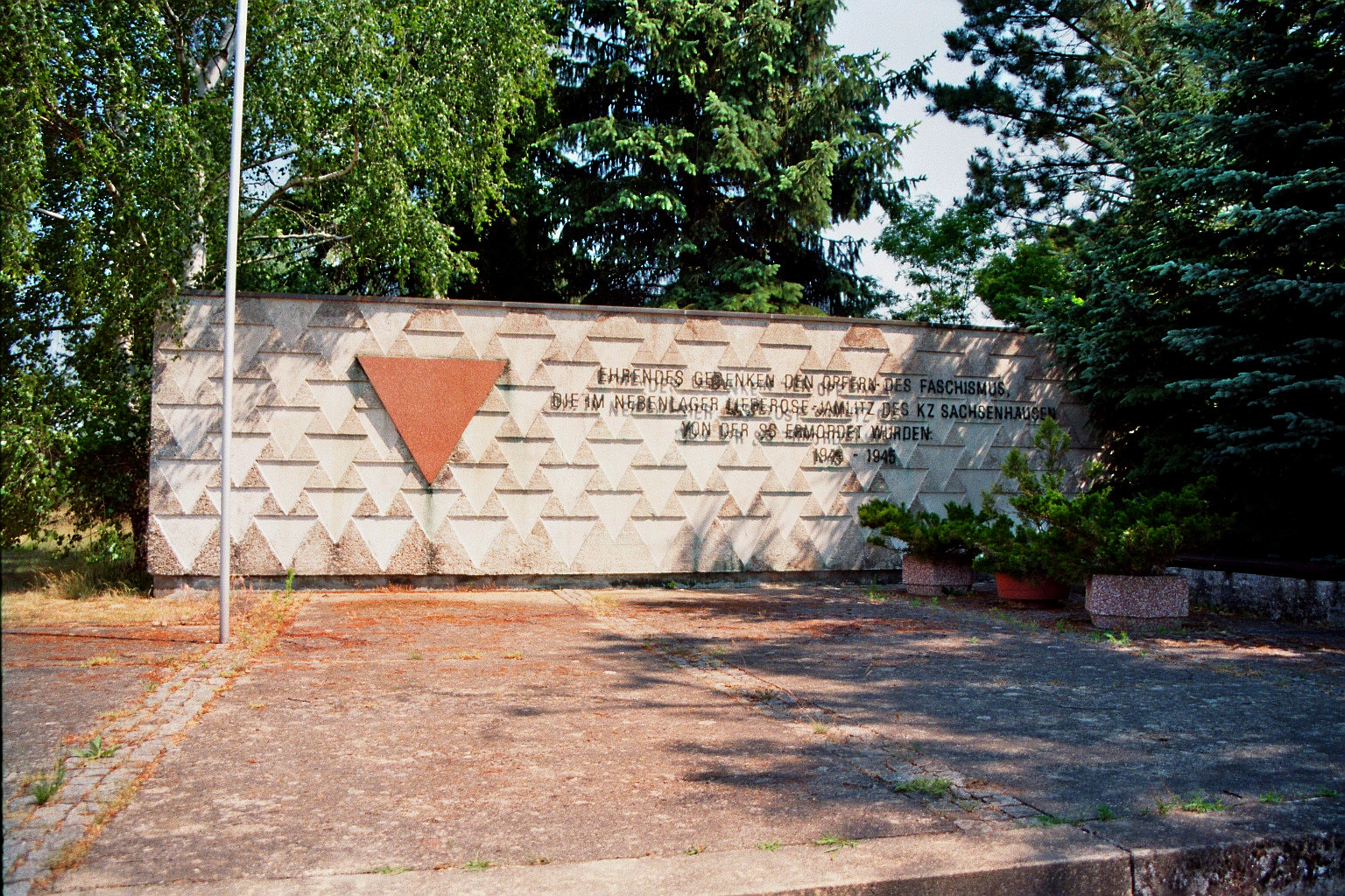 Memorial against Fascism and War (Mahnmal gegen Faschismus und Krieg) beside the cemetery in Lieberose, Landkreis Dahme-Spreewald, Brandenburg, Deutschland. The memorial is listed as a cultural heritage monument.